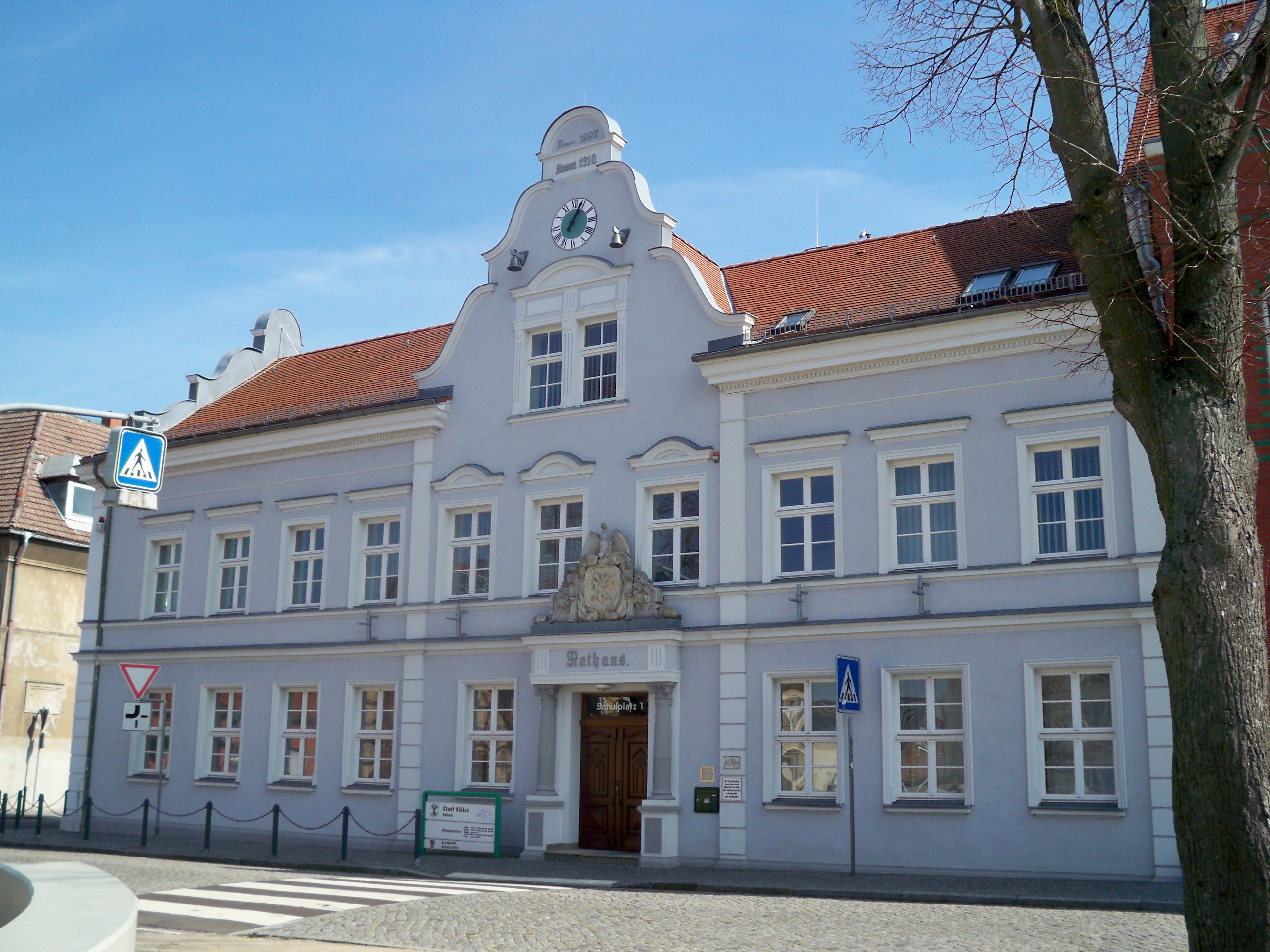 Klötze, Saxony-Anhalt, town hall